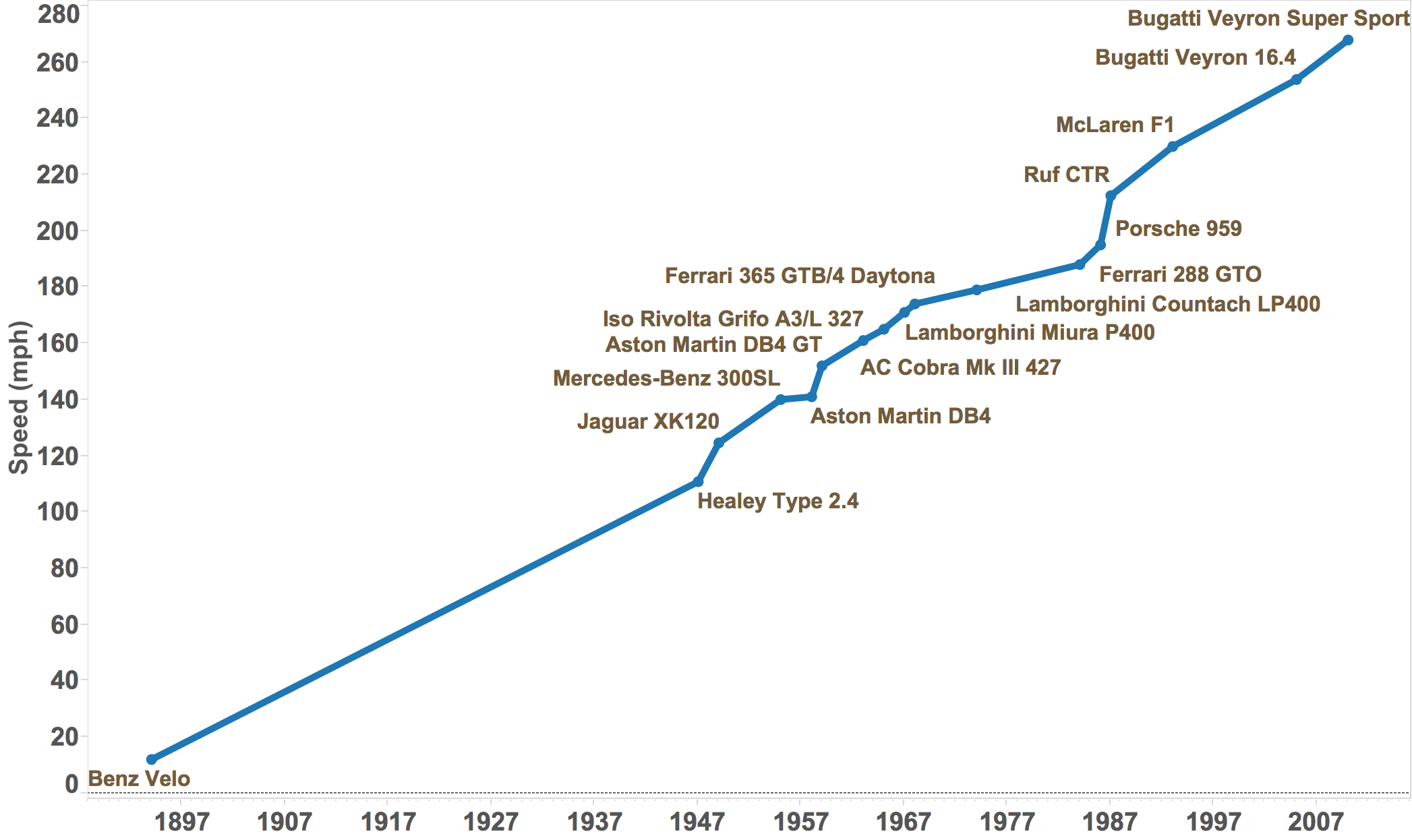 Fastest production car speed in mph by year. Created with Tableau.